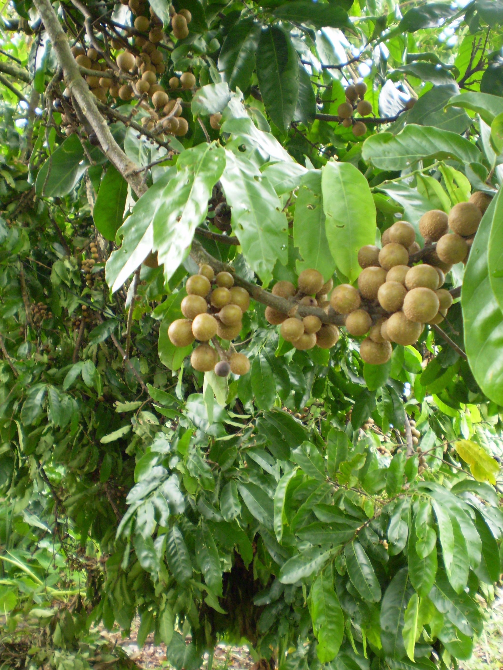 Guarea guidonia